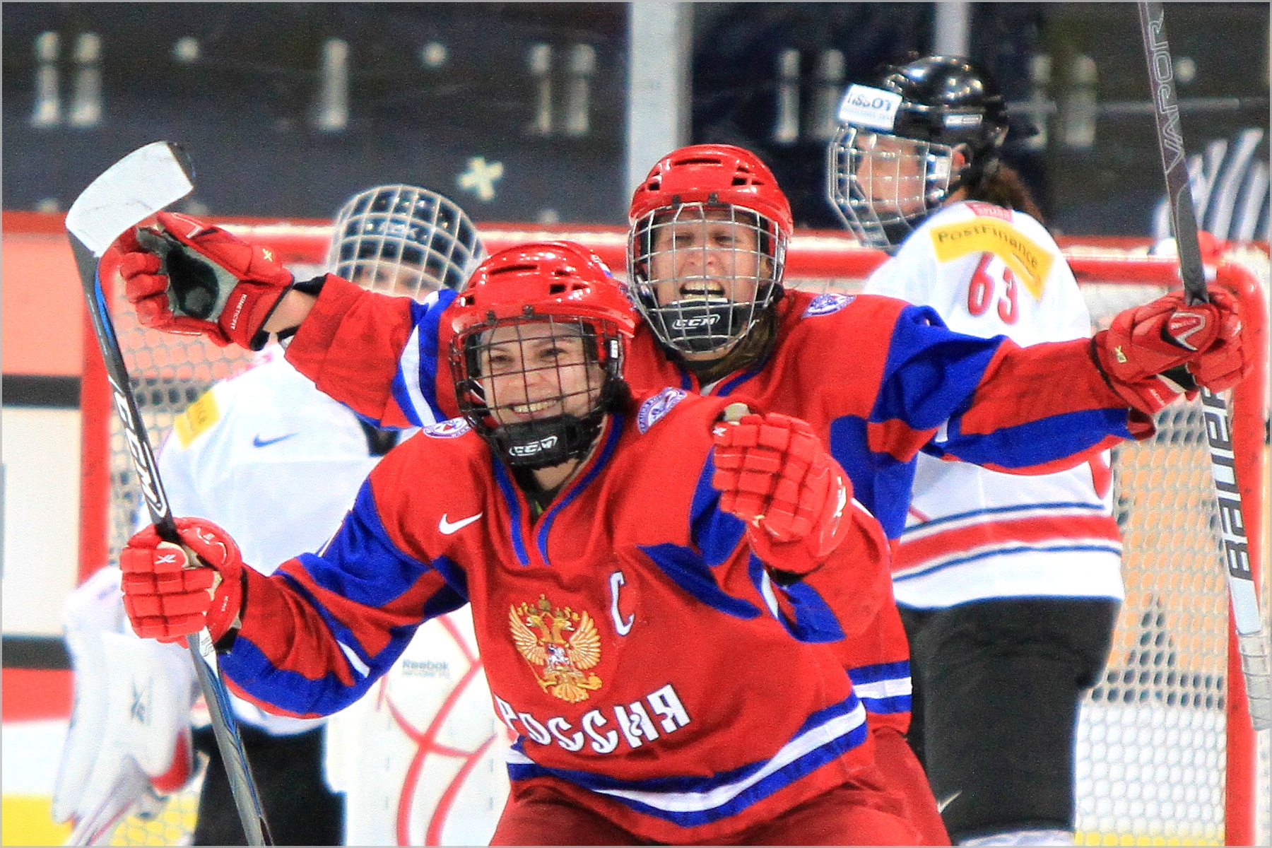 IIHF World Women Championship 2011. Quarterfinal Switzerland - Russia 4-5 OT